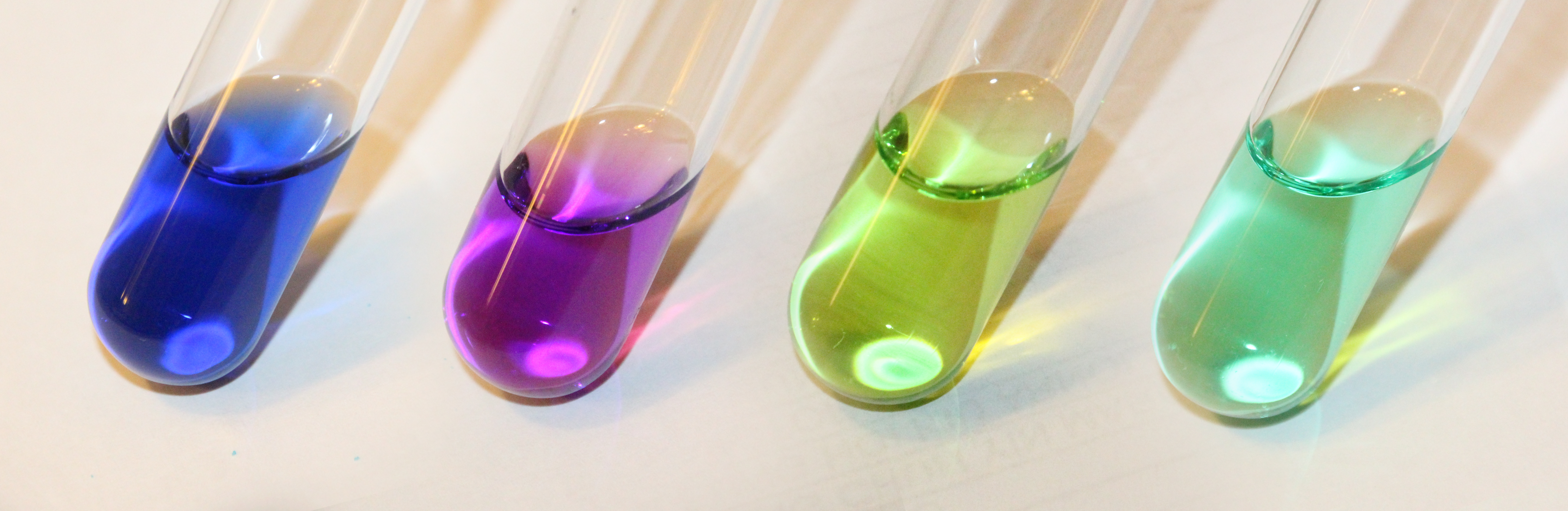 Color of various Ni(II) complexes in aqueous solution. From left to right, hexaamminenickel(II), tris(ethylenediamine)nickel(II), tetrachloronickelate(II) and hexaaquanickel(II)